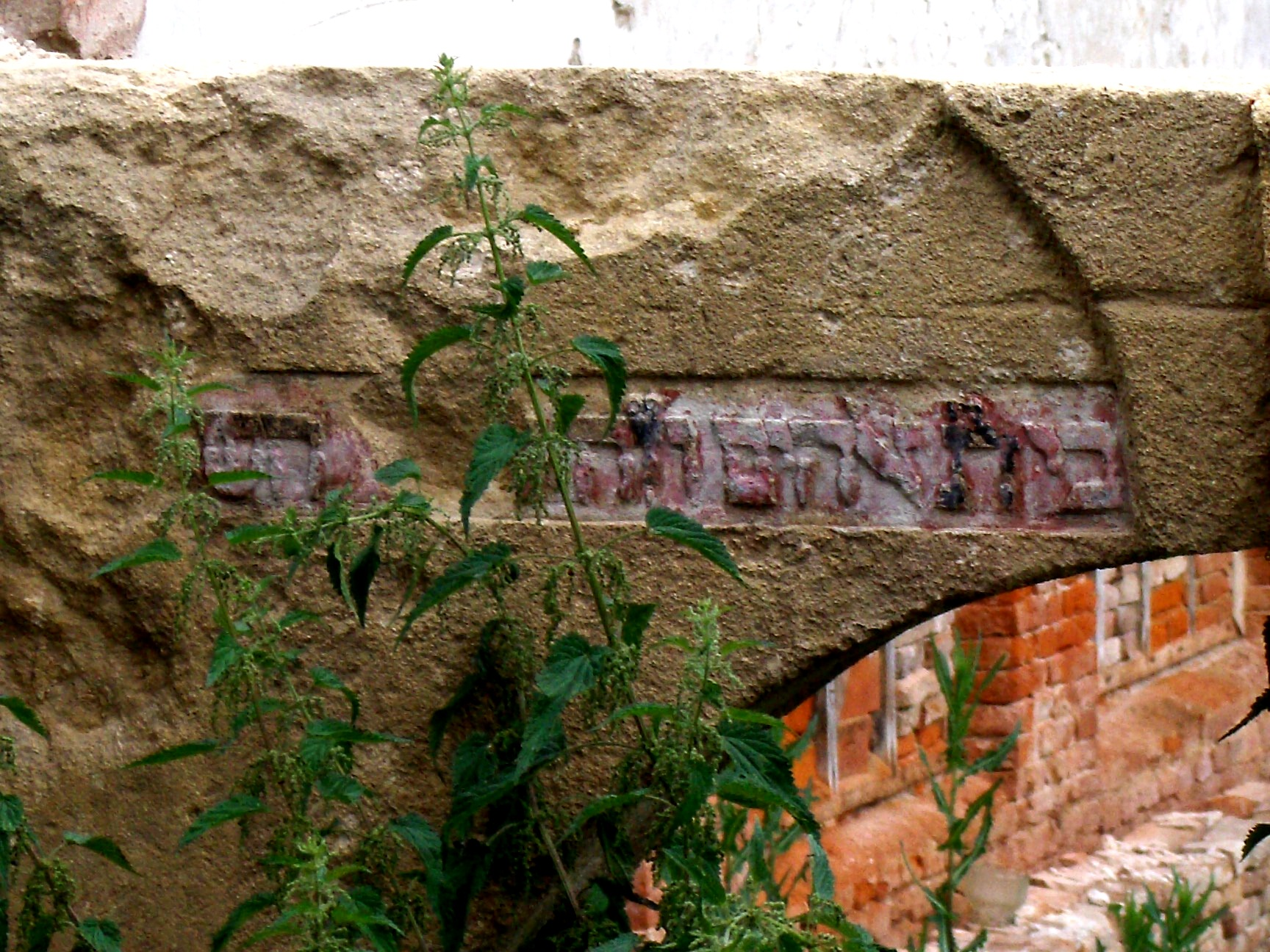 Hebrew writing on the walls of synagogue in Berezhany, west Ukraine.